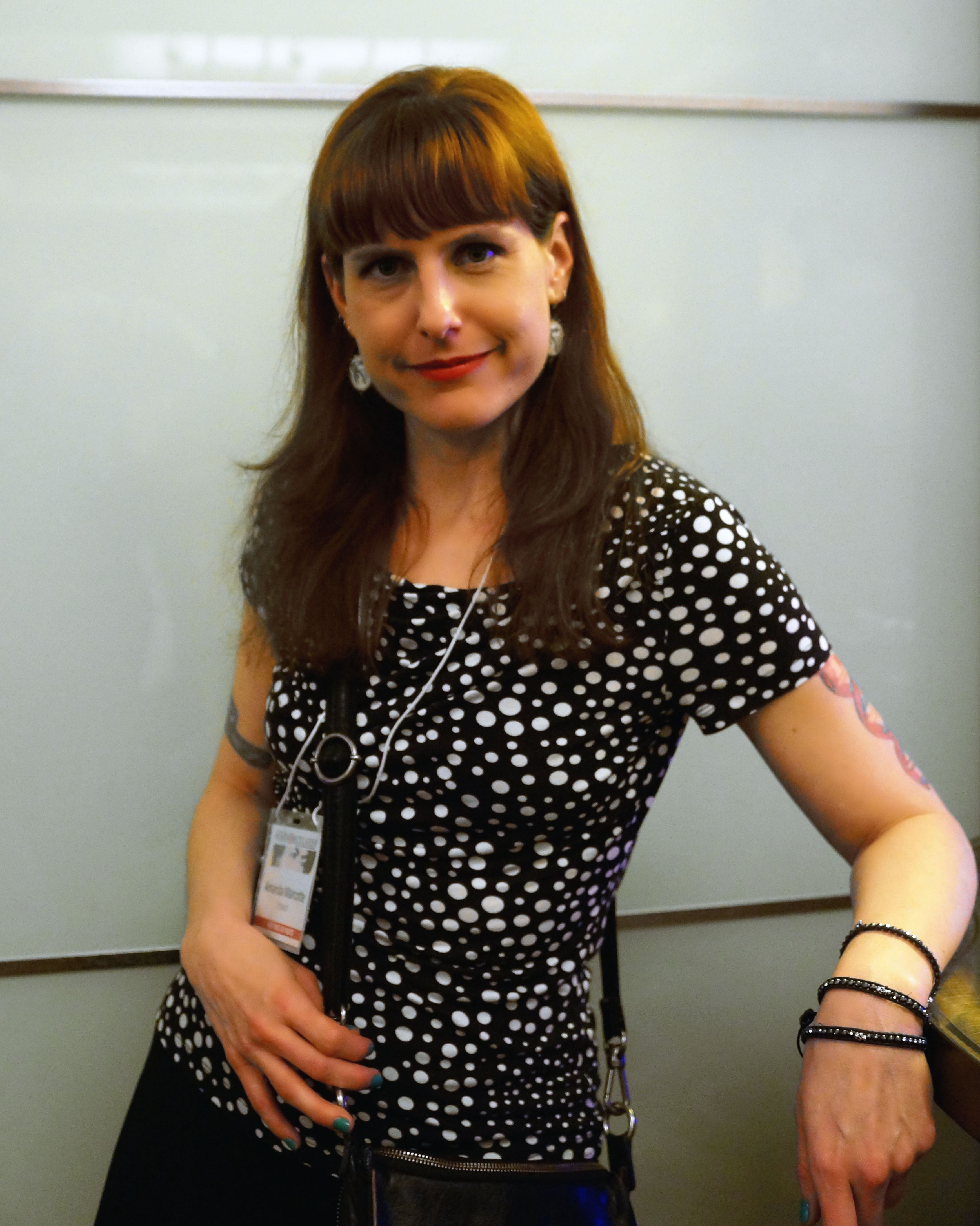 Amanda Marcotte spoke on "How Feminism Makes Better Skeptics: The Role Rationality Plays in Ending Sexism" at the Women in Secularism 2 conference in Washington, DC on May 17, 2013. She also participated in the panel that discussed "How Women's Concerns Can Best Be Advanced Within the Context of a Secular Agenda" the next day.